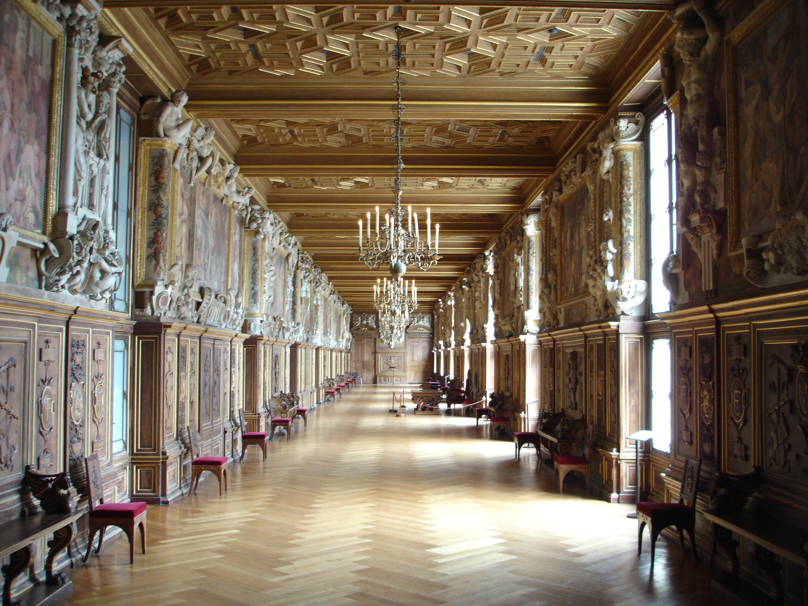 The gallery of Francis I. at the château de Fontainebleau